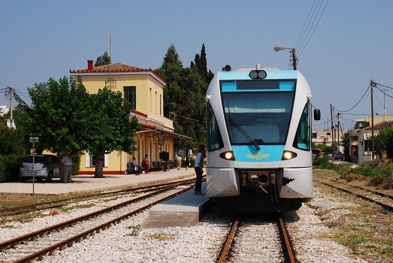 GREECE: Stadler GTW 2/6 DMU no 4508 at Argos station.